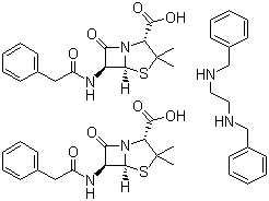 chem. structure 2